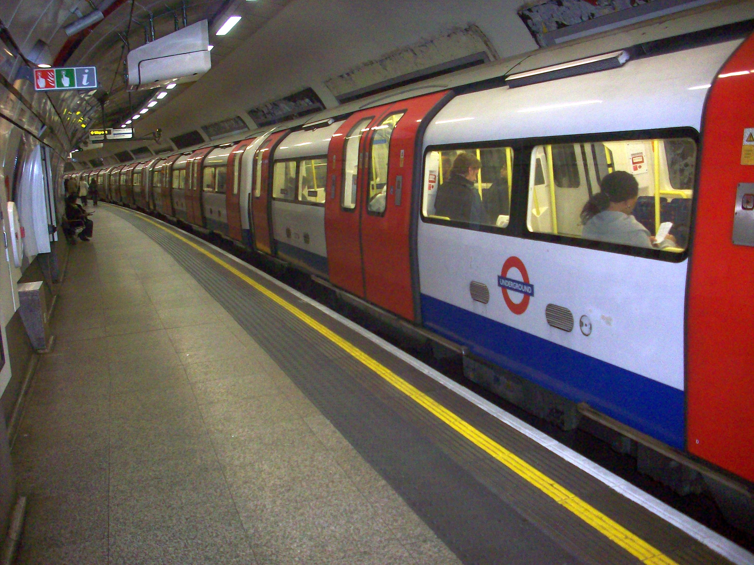 Blue Tube of London